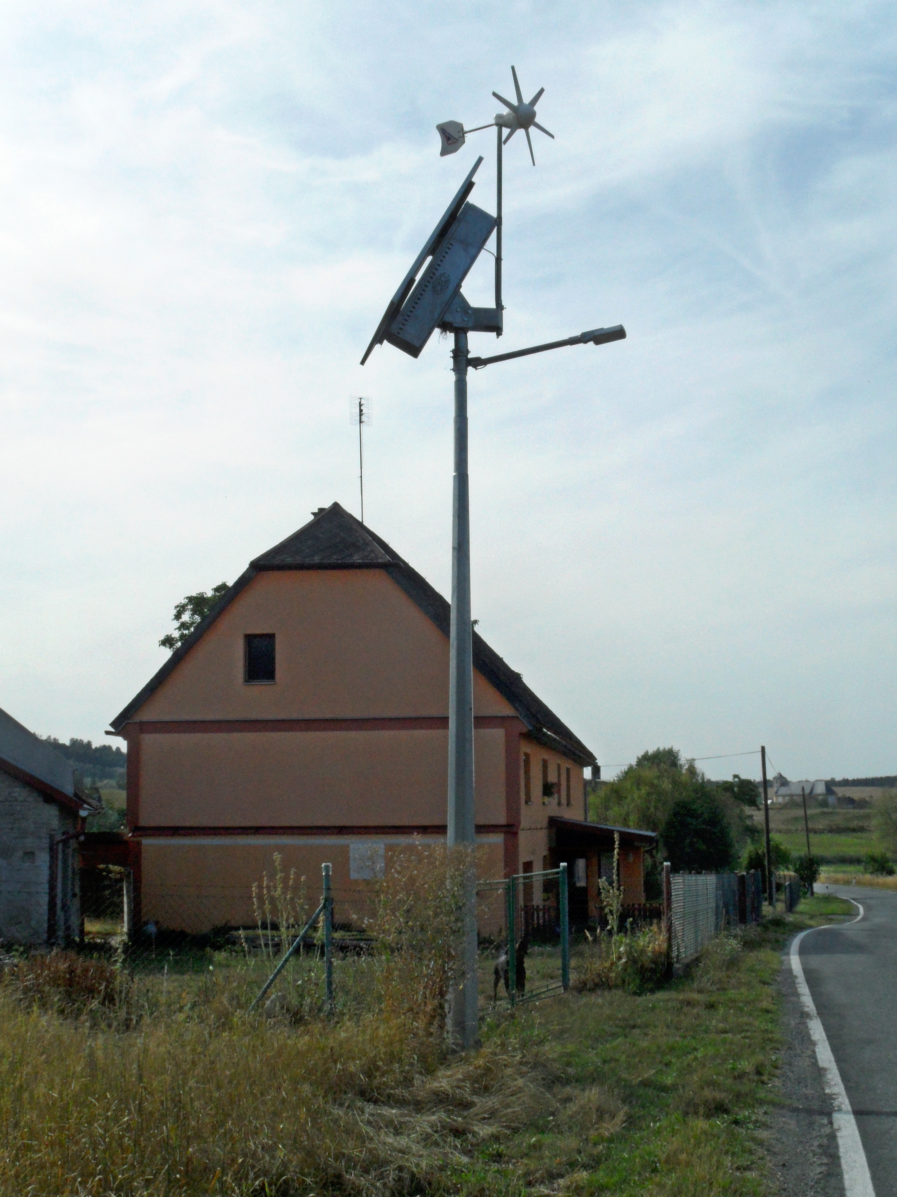 Kamenička (Bílá Voda) C. House with Pole. Jeseník District, the Czech Republic.